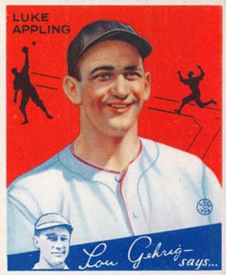 1934 Goudey baseball card of Luke Appling of the Chicago White Sox #27. PD-not-renewed.